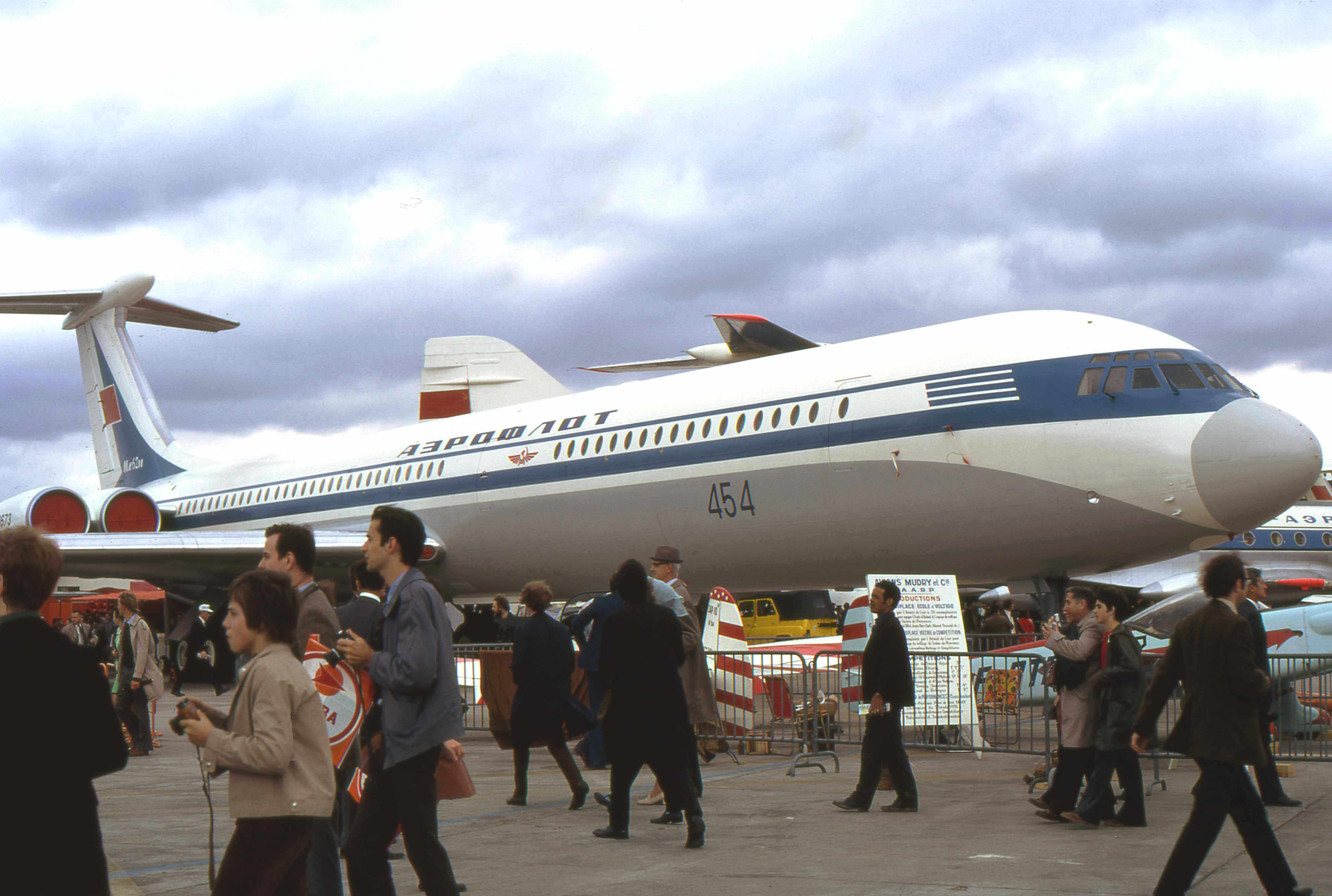 France, Paris Air Show 1973. The Soviet long-range jet airliner Ilyushin Il-62 shown at the static display.